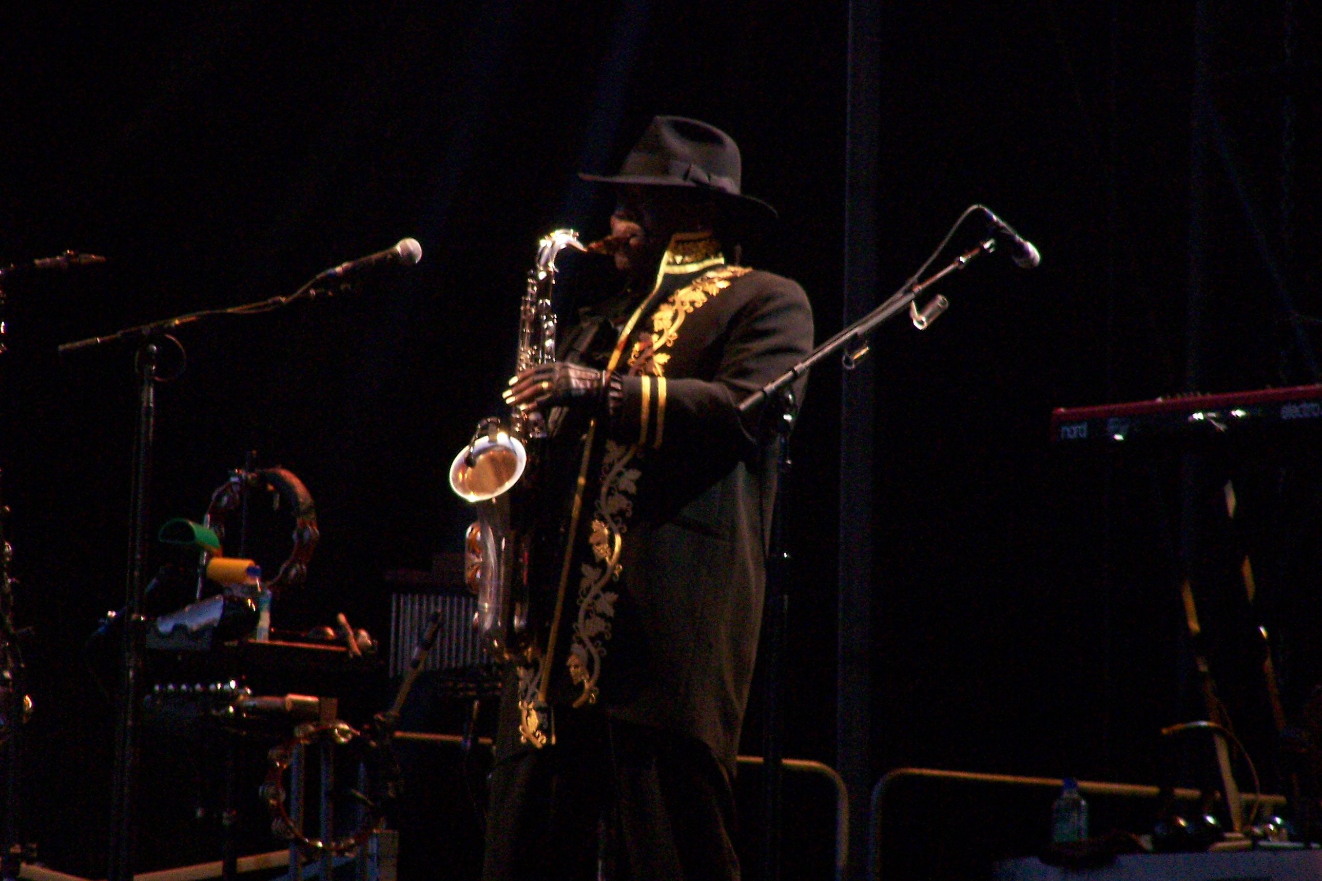 Clarence Clemons... Big Man!!! Performing "Night" early in the set during Bruce Springsteen and the E Street Band's Working on a Dream Tour, Estadio José Zorrilla, Valladolid, Spain